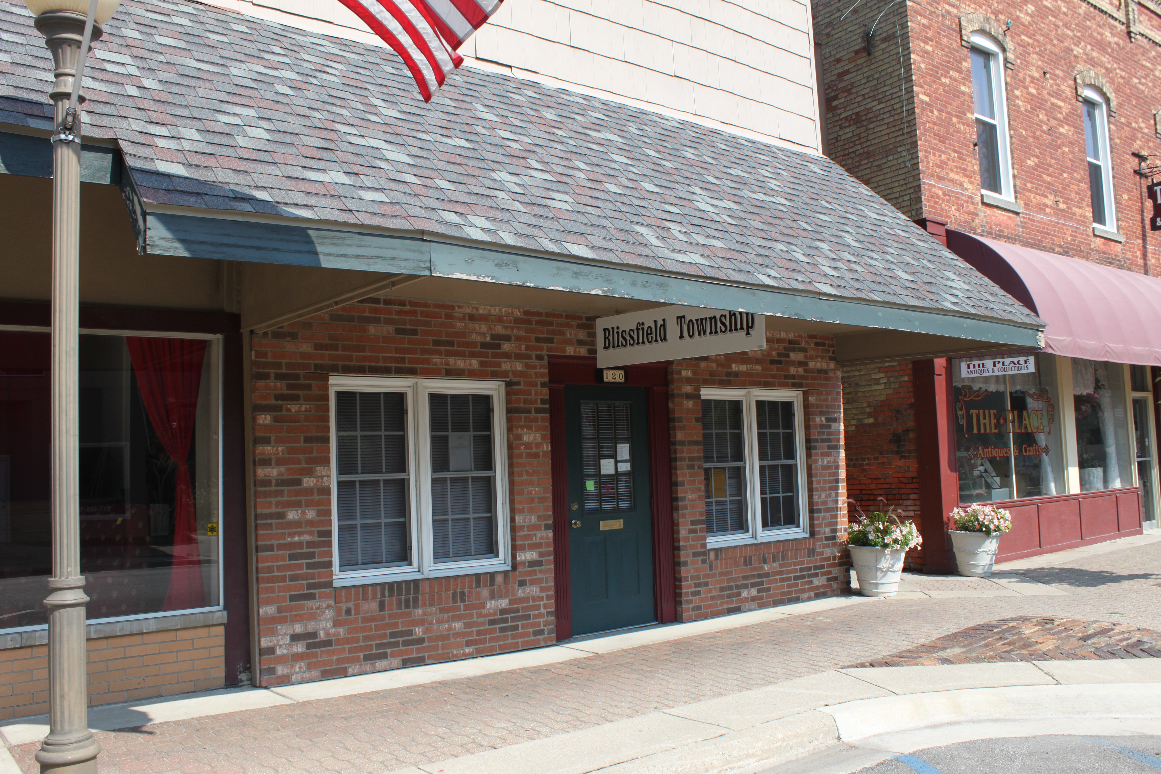 Blissfield Township Hall, 120 S. Lane street, Blissfield